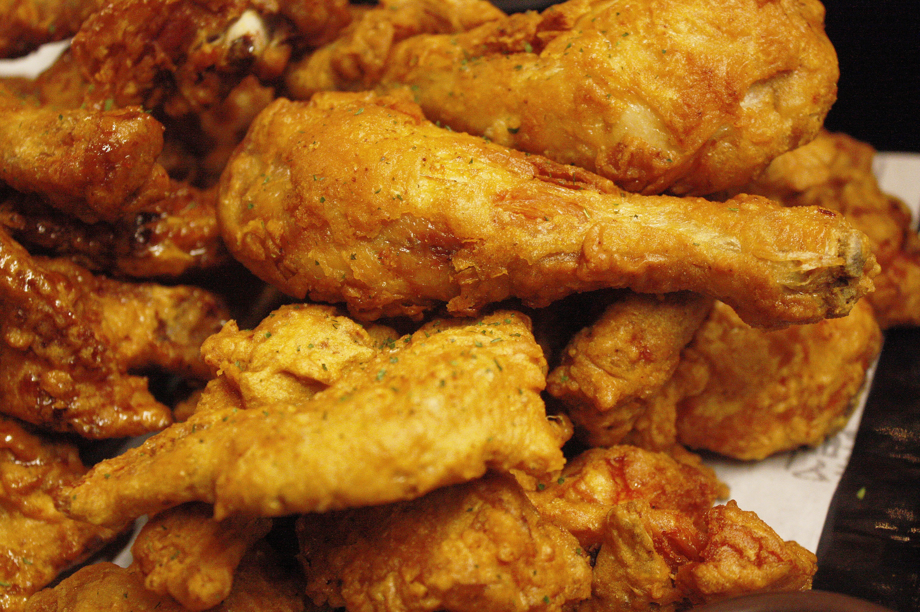 Korean fried chicken